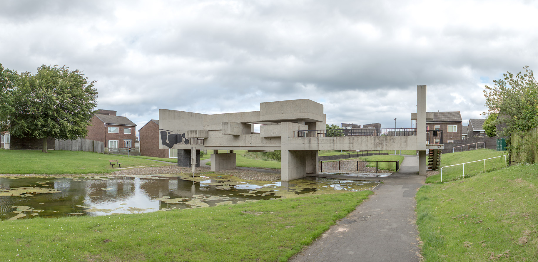 This is a Photo of The Apollo Pavilion, A piece of public art in the new town of Peterlee in County Durham in the North East of England, designed by British artist and architect Victor Pasmore. The sky is overcast and this photo is looking East towards the Structure.